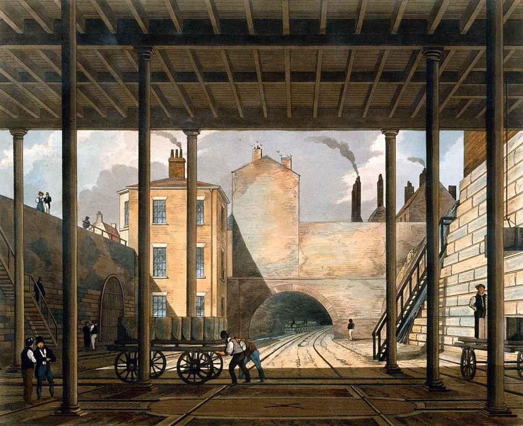 The original goods-handling facilities of the Liverpool and Manchester Railway at the end of the Wapping Tunnel towards the dockside (later the Wapping Dock) in Liverpool.The sidings stretched back about 200 yards from the tunnel mouth towards the dock, with warehouses on both sides where goods could be loaded down from above onto the wagons. The facility remained in use, later renamed the Park Lane goods station, with various reconstructions, until 1972. Traffic through the tunnel continued to be cable-drawn to Edge Hill until 1896. The site has now been demolished and redeveloped; all that remains is the partially bricked-up tunnel portal at Kings Dock Road.